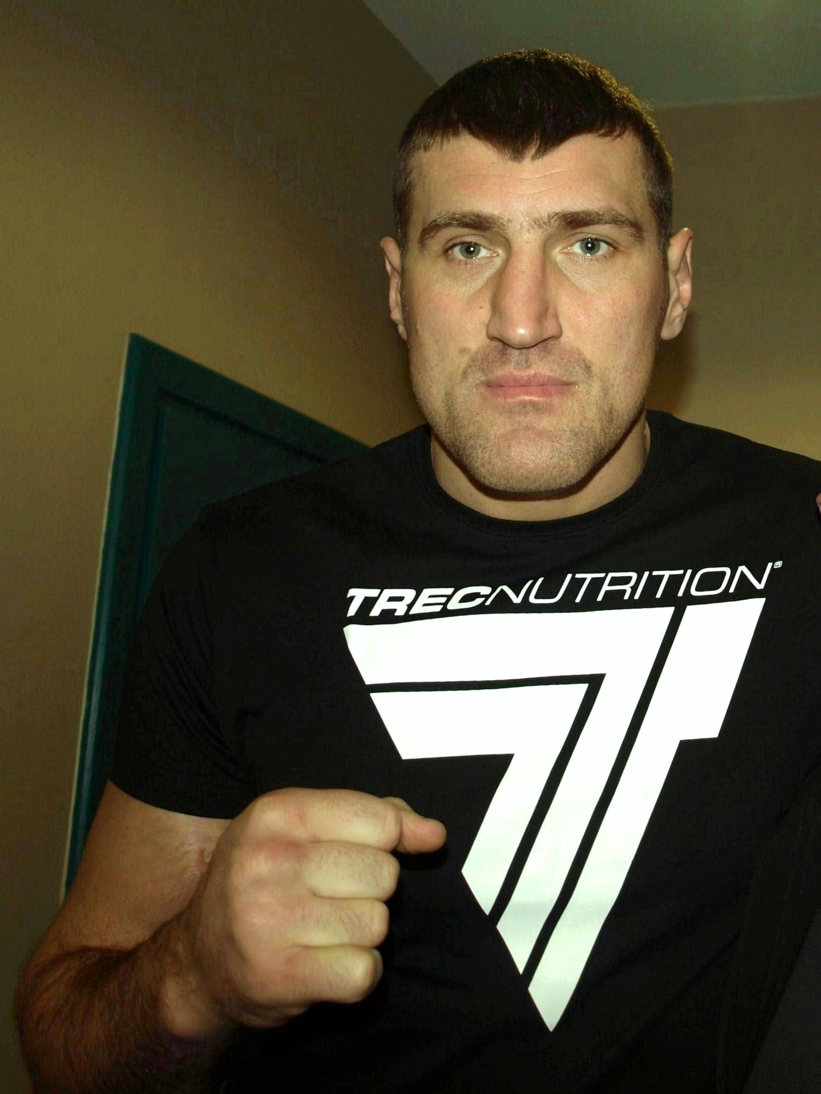 Mariusz Wach, a professional heavyweight boxer from Poland.